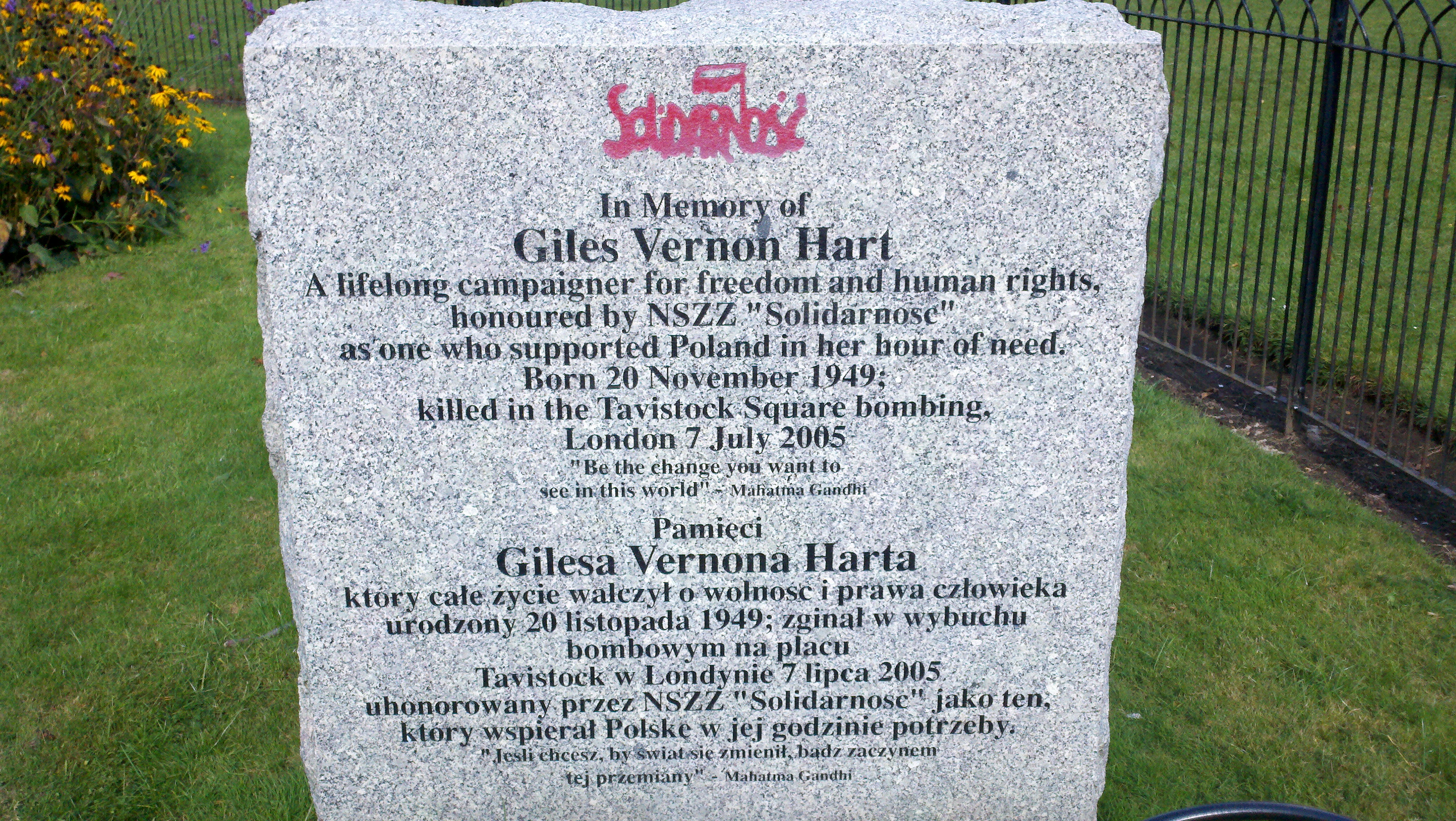 "A lifelong campaigner for freedom and human rights, honoured by NSZZ "Solidarnose" as one who supported Poland in her hour of need. Born 20 November 1949; killed in the Tavistock Square bombing, London 7 July 2005". Memorial in Ravenscourt Park, Hammersmith.